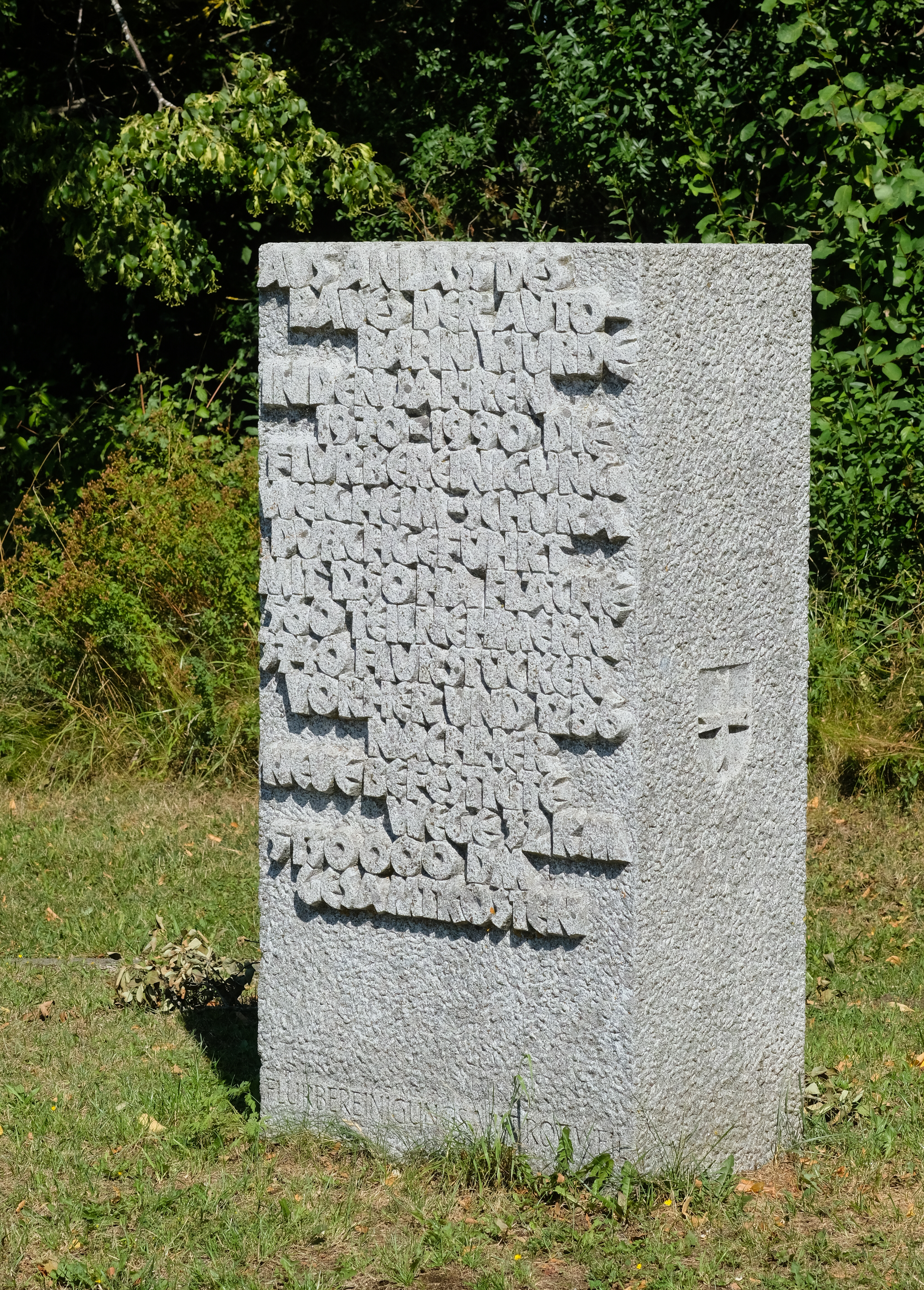 Memorial stone land consolidation Weigheim–Schura, Weigheim, Villingen-Schwenningen, district Schwarzwald-Baar-Kreis, Baden Württemberg, Germany